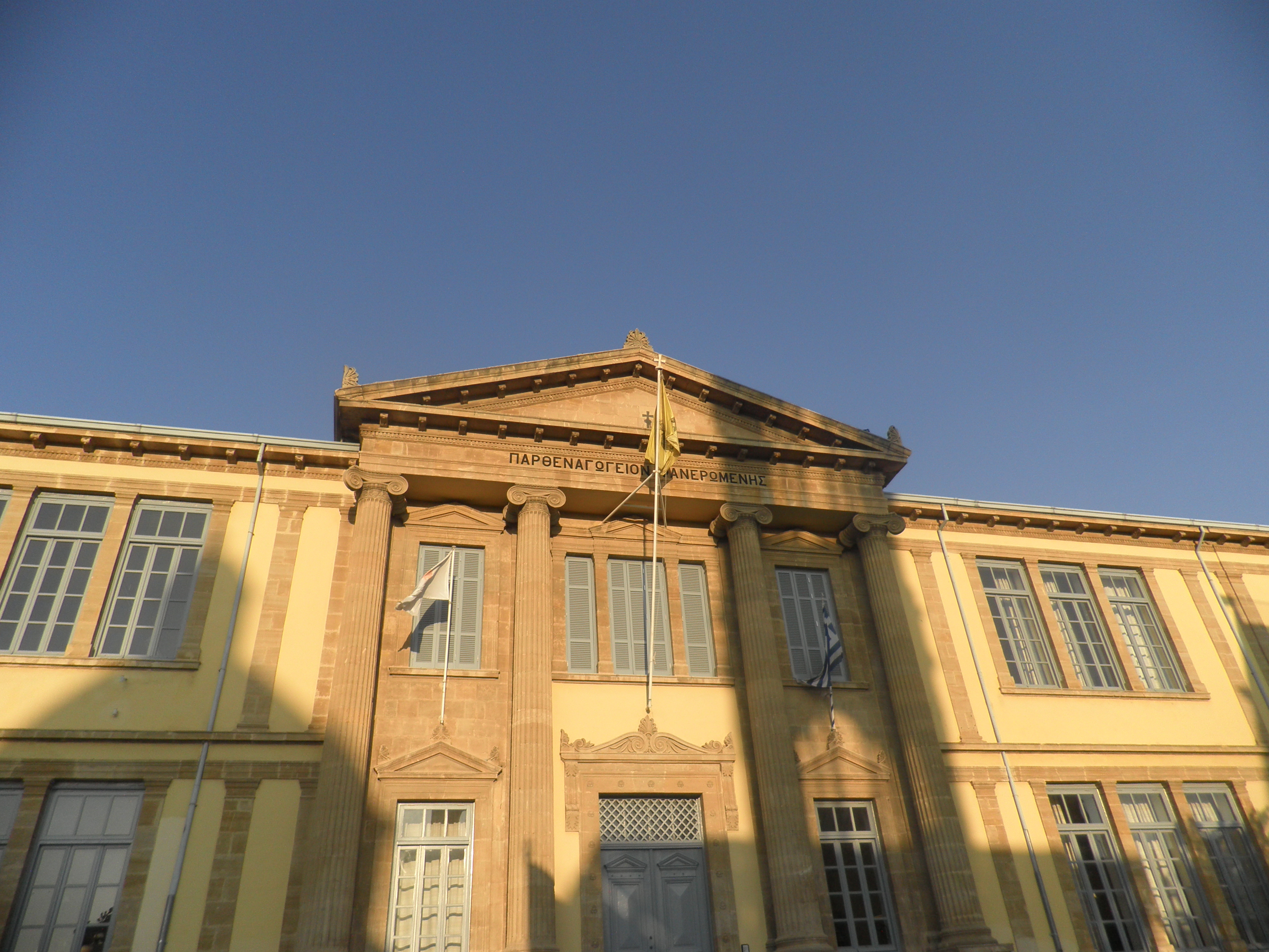 Parthenagogeio Faneromenis